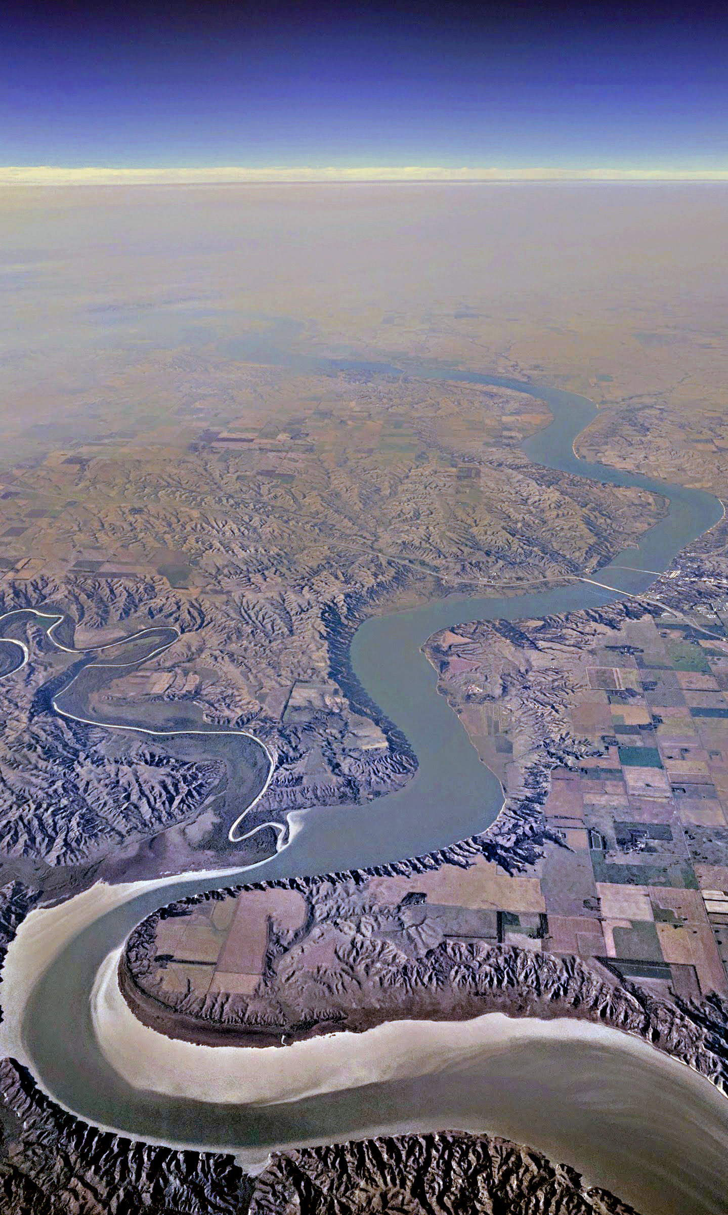 Aerial view from the south of the Missouri River in South Dakota, where the much smaller White River flows into it from the west. The Interstate 90 bridge is visible in the distance.